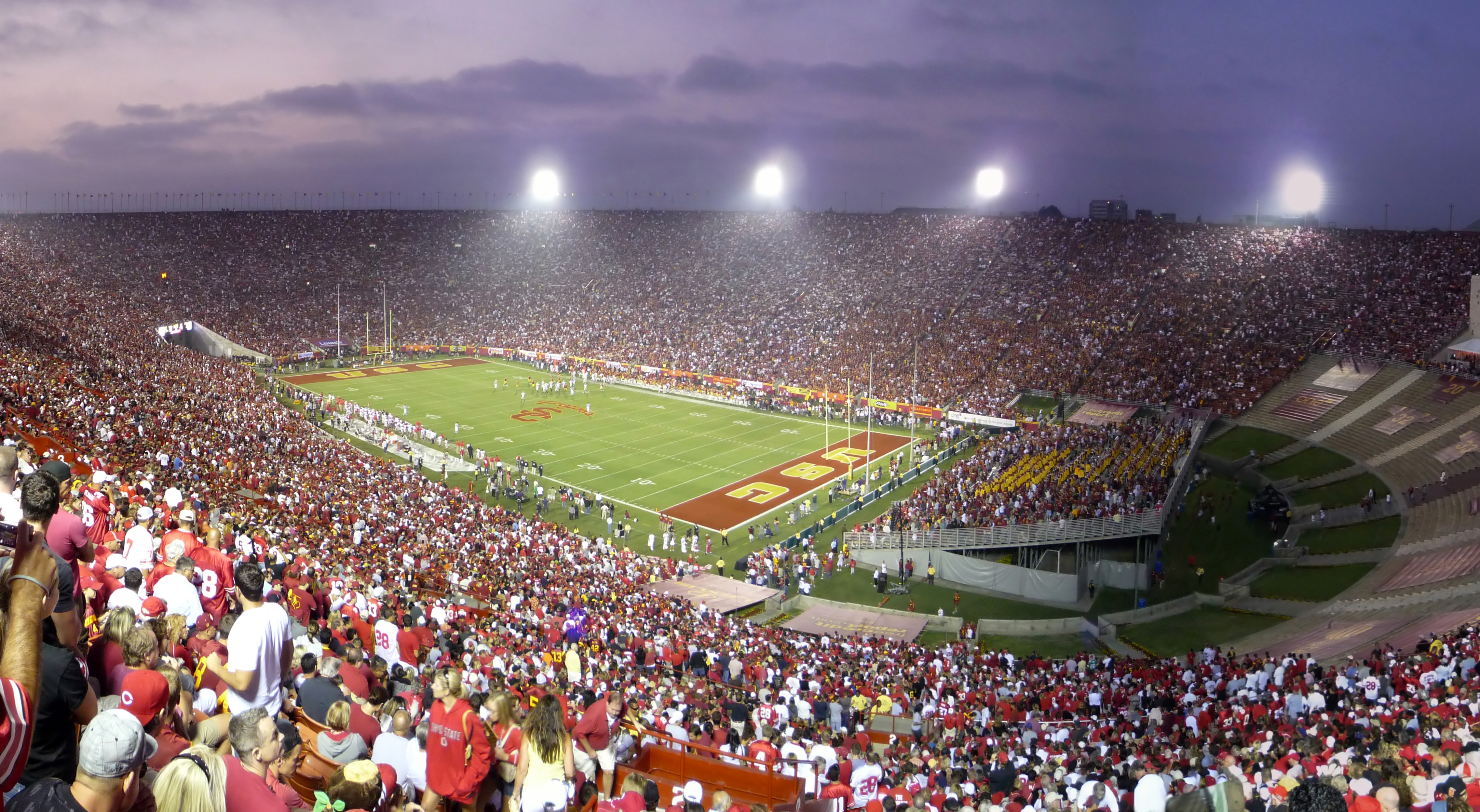 Crop of thisː